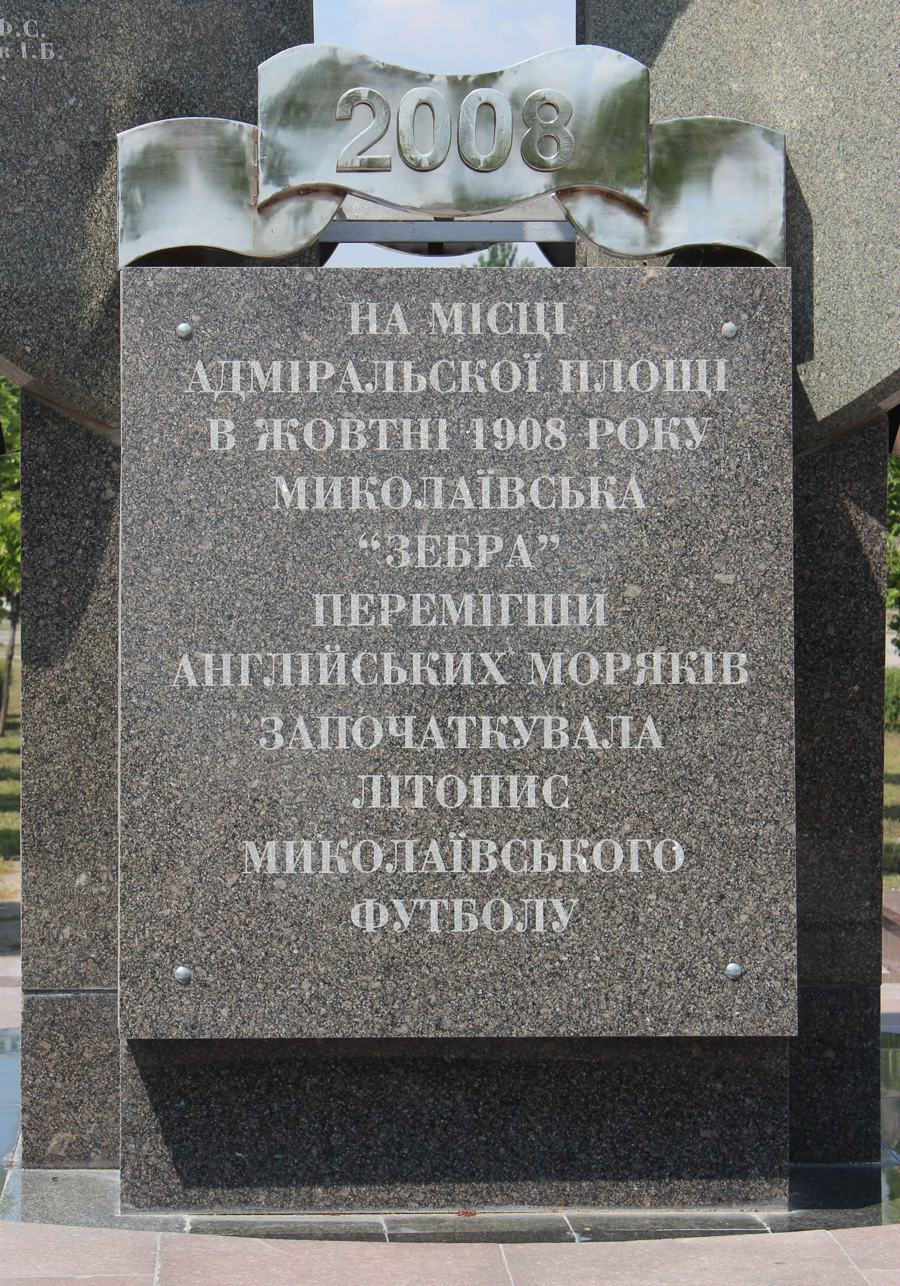 first football in Nikolaev